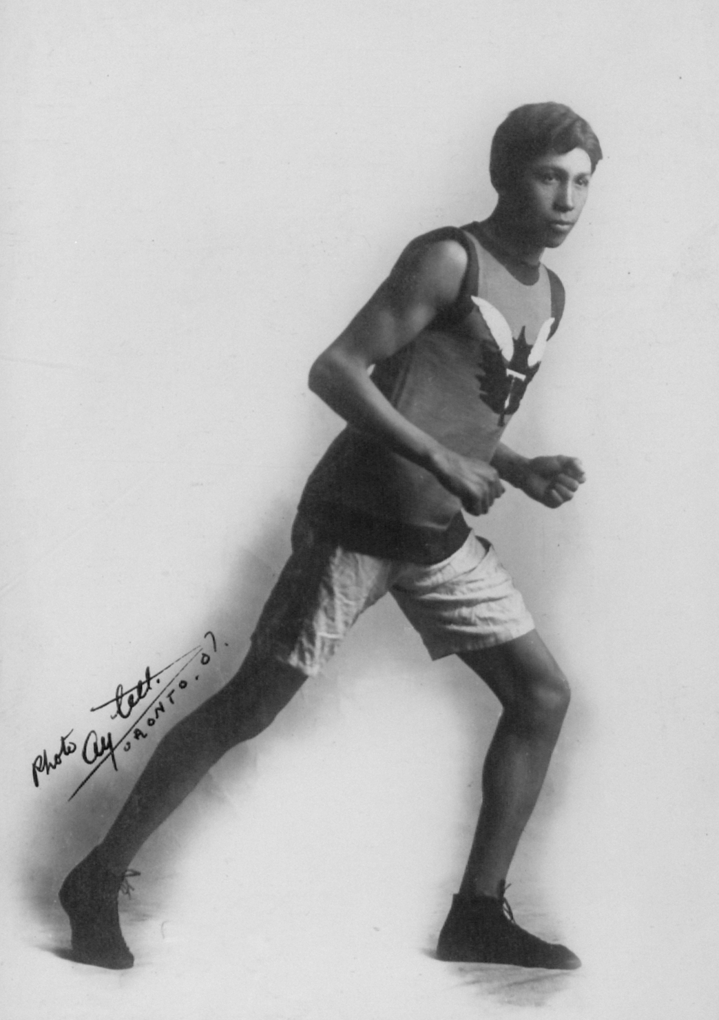 T. Longboat, the Canadian runner. Running.